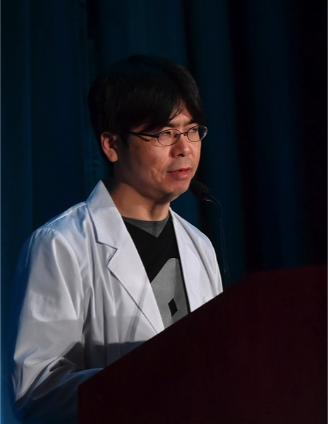 Hisashi Nogami at the Game Developers Conference in 2018. This image was cropped from the original.